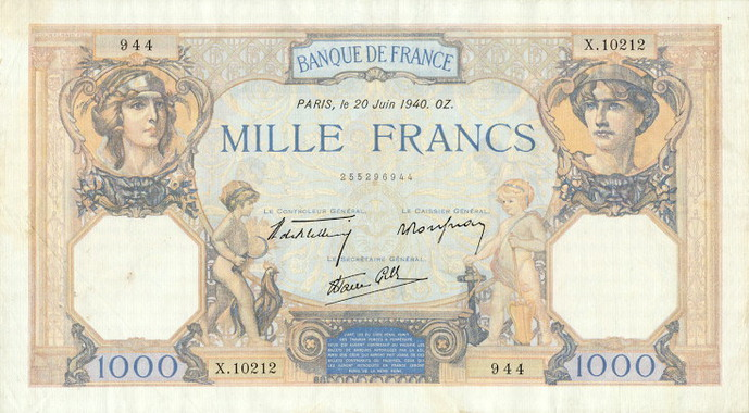 France 1000 Francs-1940